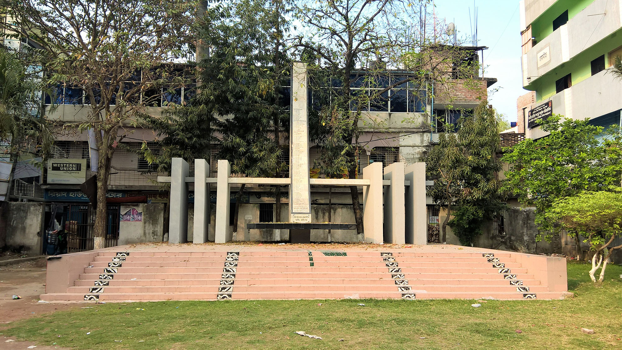 Bhuban Mohan Park Monument is one of the central monument in Rajshahi city for the martyrs of 21st February 1952 historical strike.